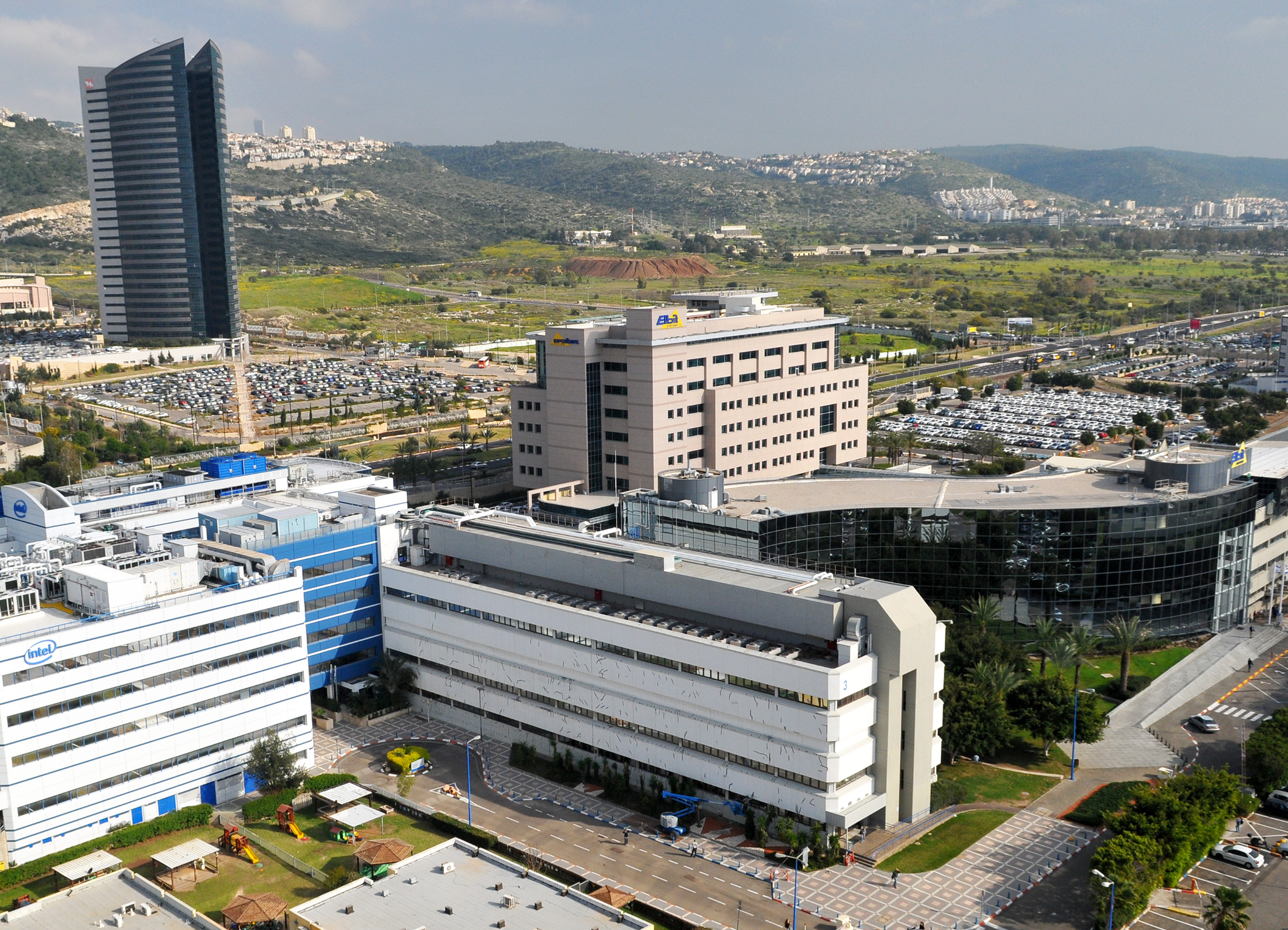 Matam (from Hebrew: Scientific Industries Center) located at the southern entrance to Haifa, Israel, is the largest and oldest dedicated HiTech park in Israel. Next to it, IEC Tower. The buildings in Matam at the front of the picture are the ones of Intel and Elbit Systems.